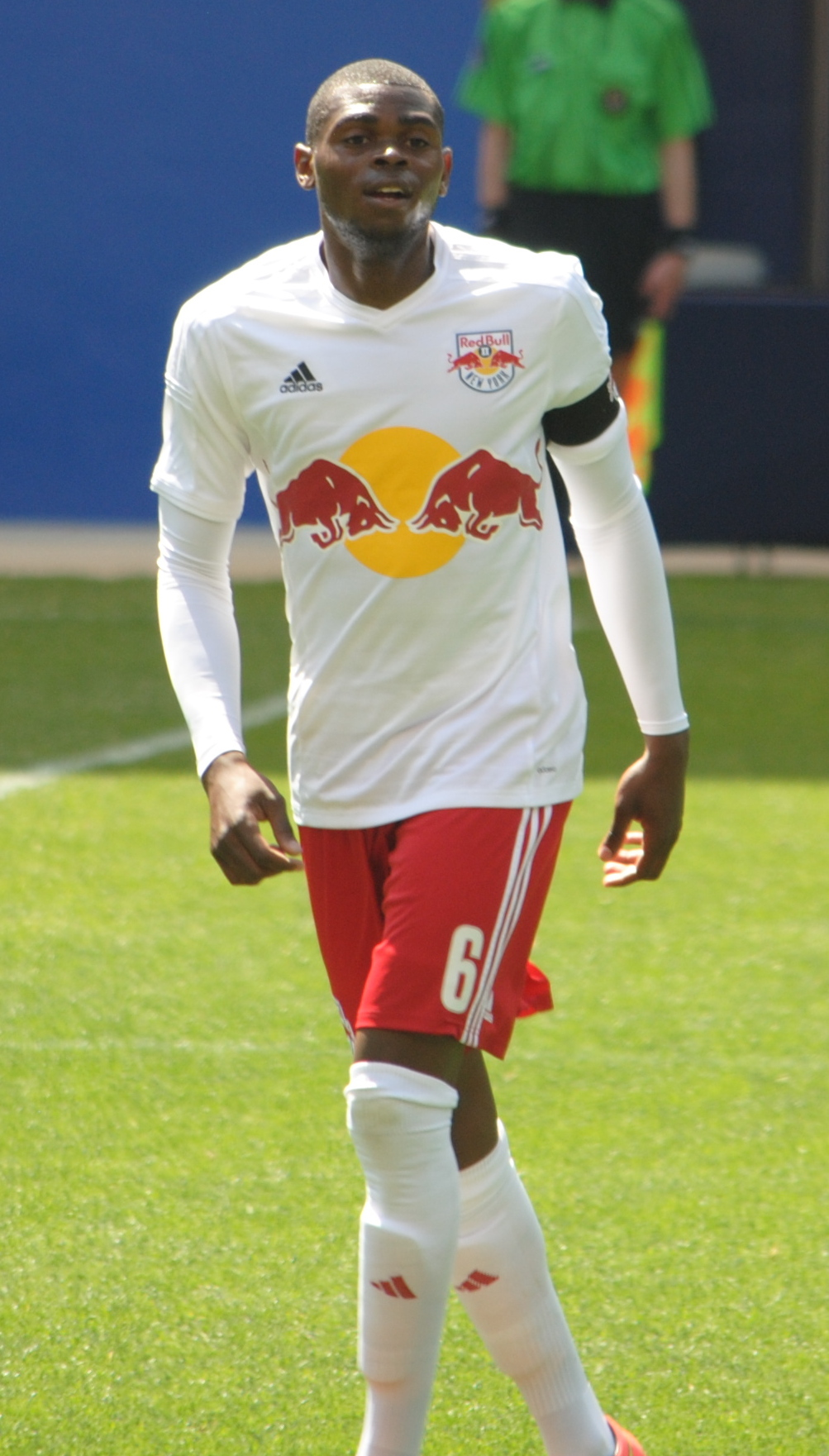 Anthony Wallace playing with NYRB II